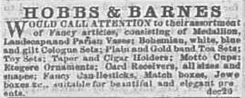 This is a newspaper advertisement for Hobbs & Barnes, forerunner of J. H. Hobbs, Brockunier & Company. The ad is from a Wheeling, Virginia, newspaper in 1861. Hobbs & Barnes was one of America's leading flint glass manufacturers during the 19th century.